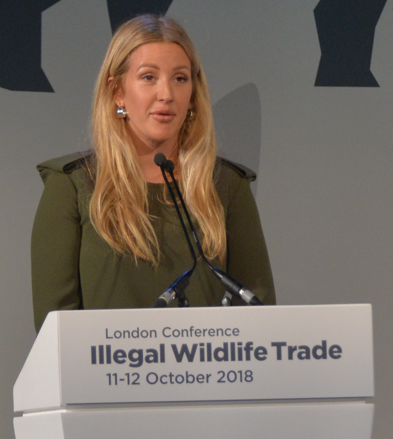 Ellie Goulding, UN Environment Goodwill Ambassador at the Illegal Wildlife Trade Conference: London 2018, 11 October 2018. Photographer: Mark Mackenzie